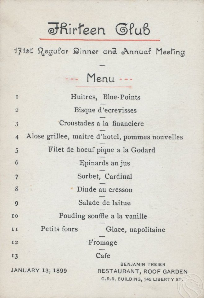 The "Thirteen Club" (anti-superstition club) dinner menu, 1899.